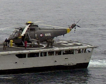 Cropped version focusing on Sea King. Original caption:Port side view of the Peruian Carvajal (LUPO) Class (FFGHM) Frigate Buque Armada Peruana (Ship of the Peruvian Armada) BAP MONTERO (FM 53) (rear) and BAP MARIATEGUI (FM 54) underway during UNITAS XLII.